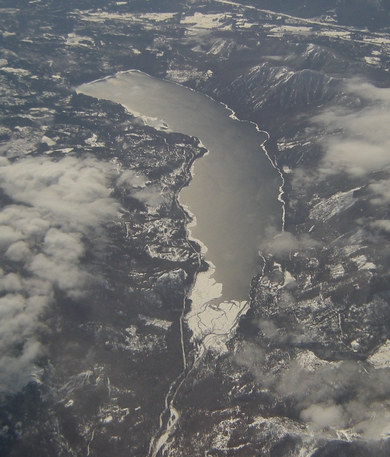 Aerial photo of Cle Elum Lake, Washington, USA. View is roughly from the north.